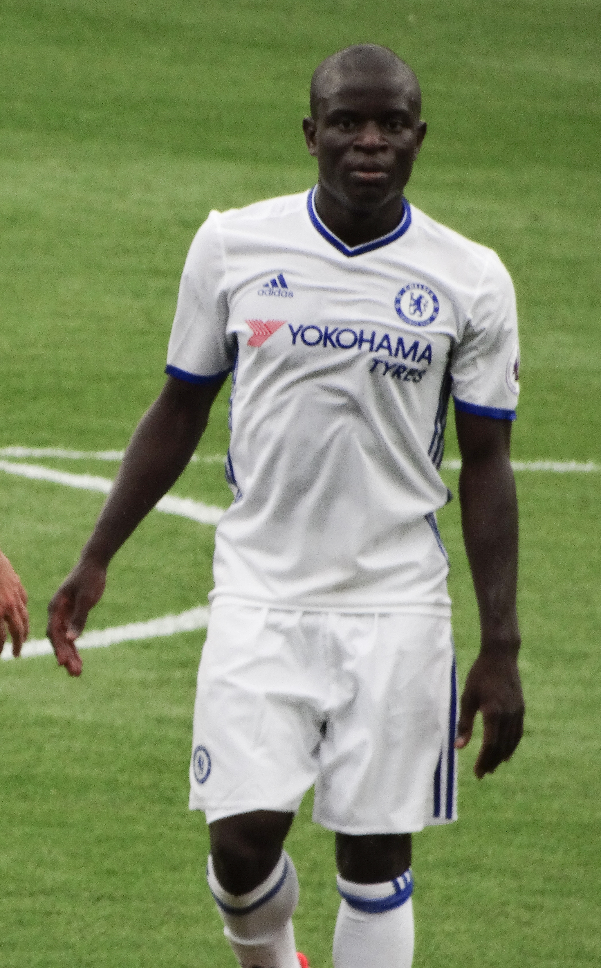 Watford 1 Chelsea 2 20.8.16